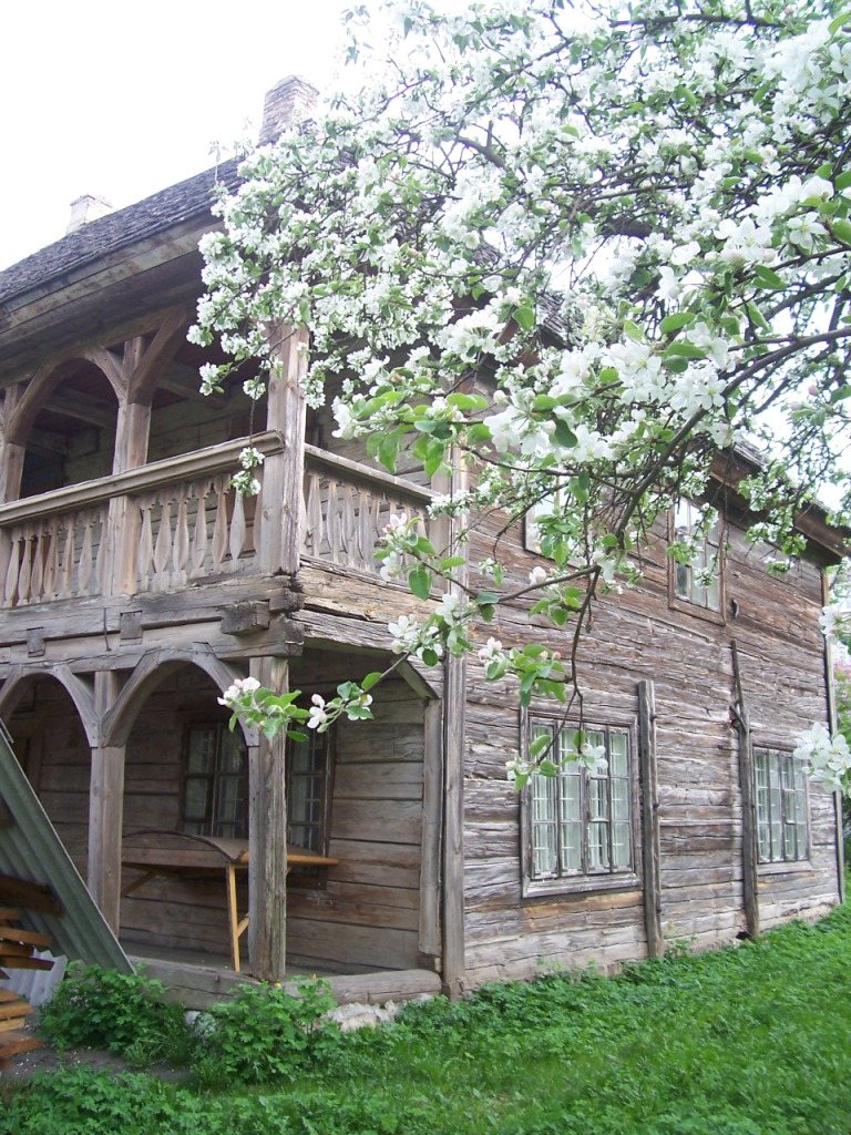 Granary (Quincha) in Horadnia, Belarus